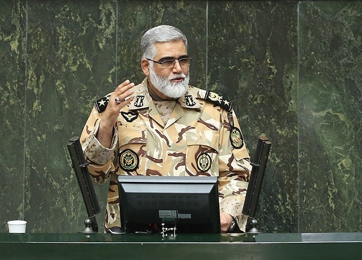 General Ahmad Pourdastan, commanding officer of the ground forces of the Iranian Army speaking in the parliament in National Day of Defence